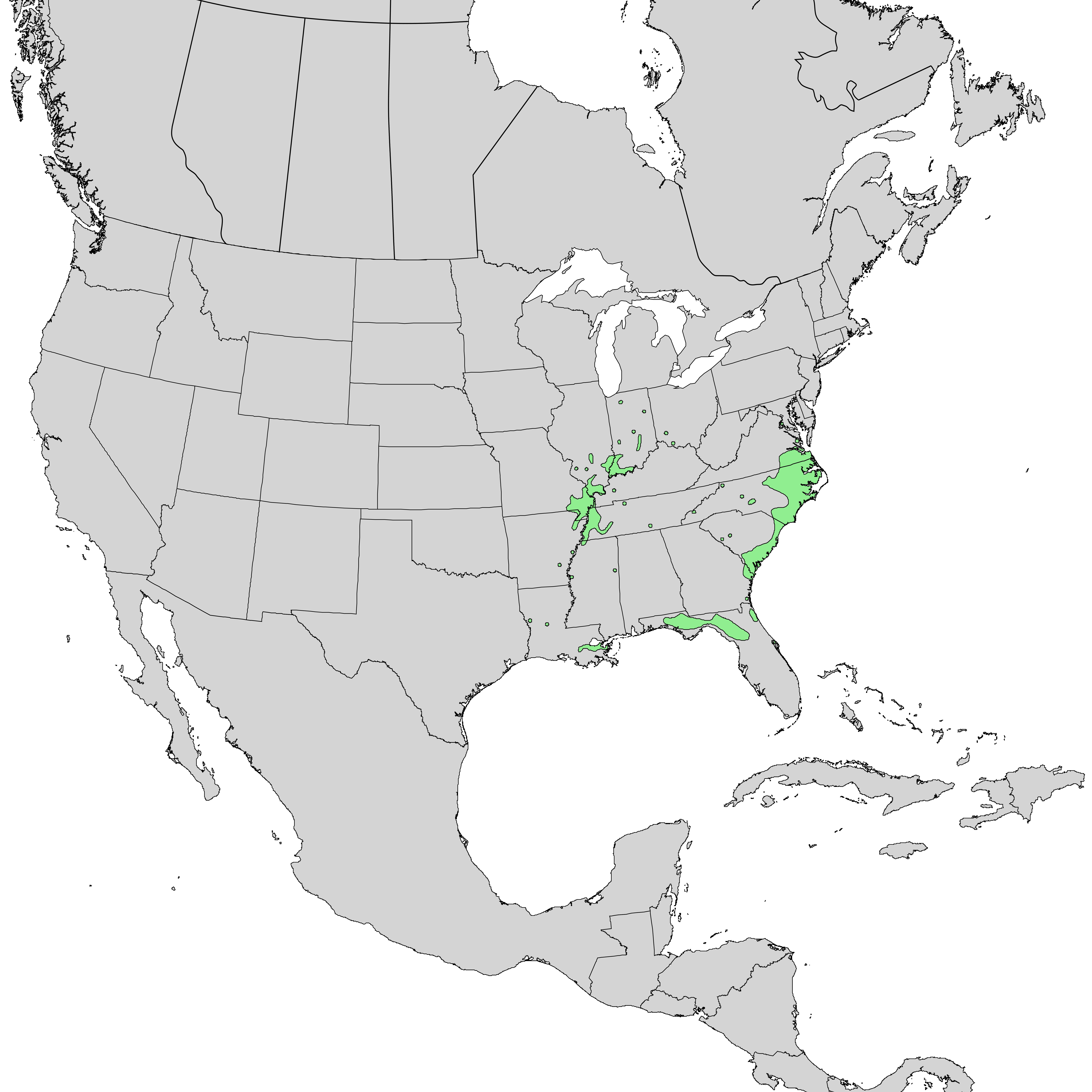 Fraxinus profunda range map